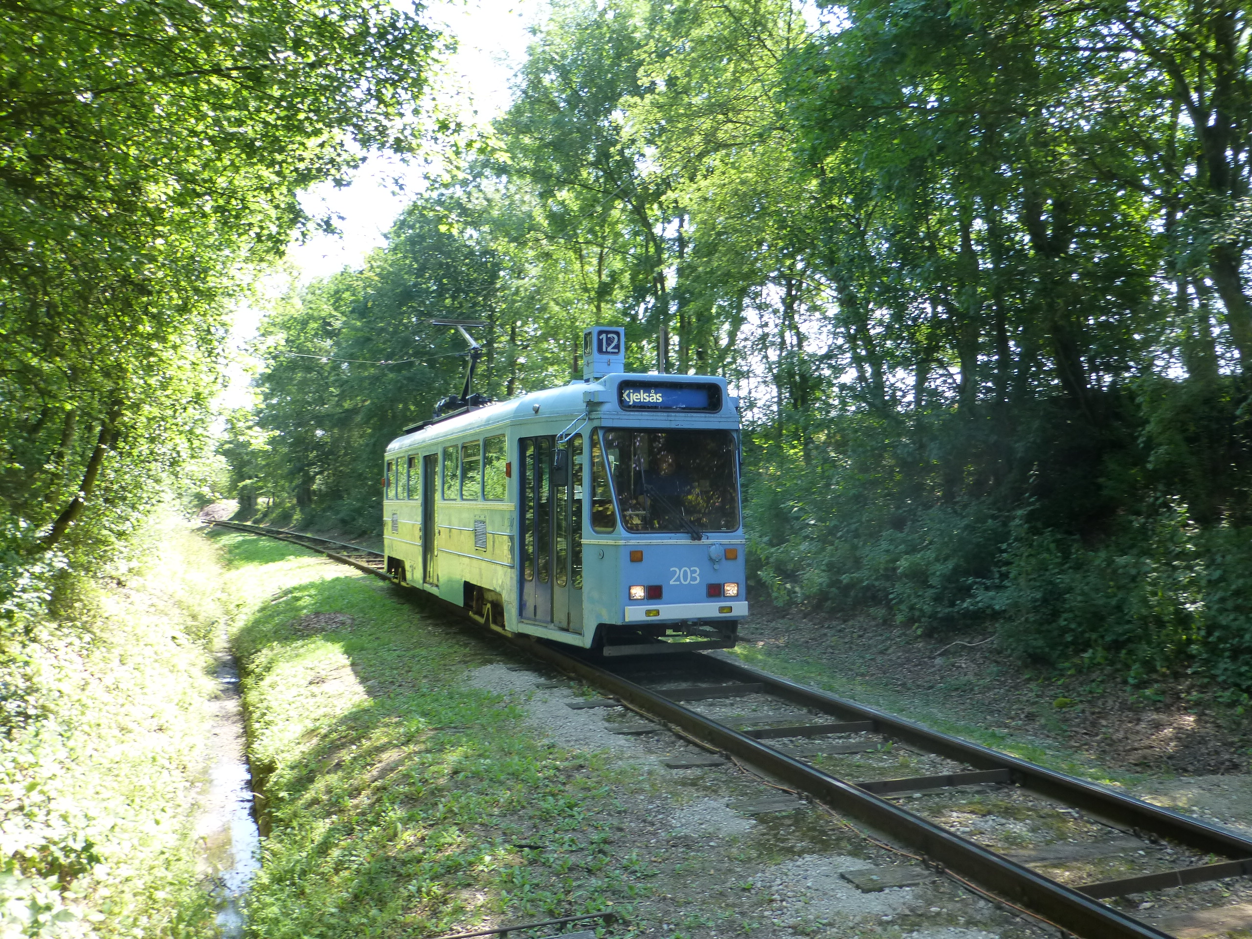 Old tram from Oslo OS 203 at Flemmingsminde on Sporvejsmuseet Skjoldenæsholm in Denmark.